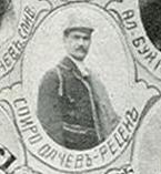 Portrait of IMARO member Spiro Olchev from Resen